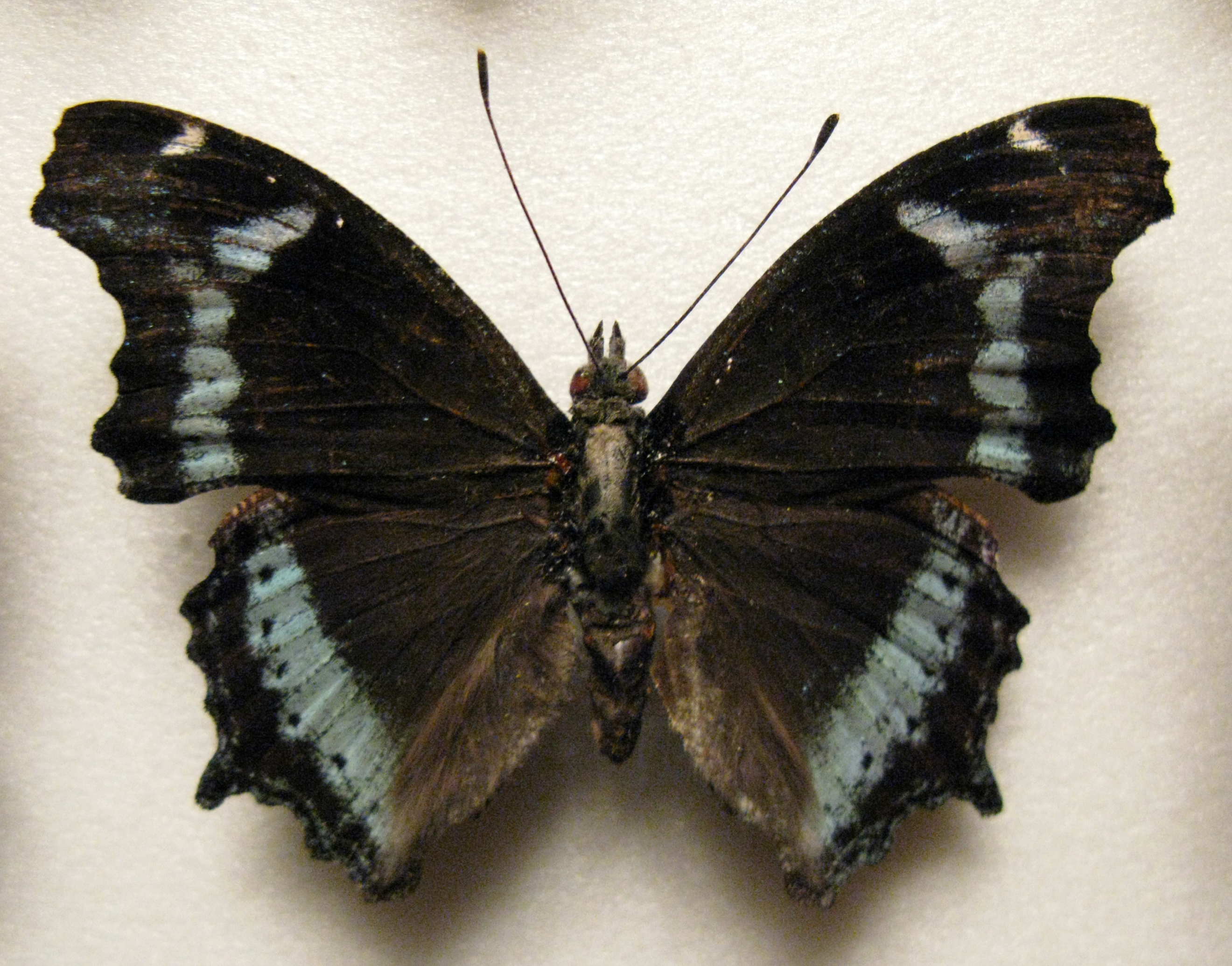 Kaniska canace